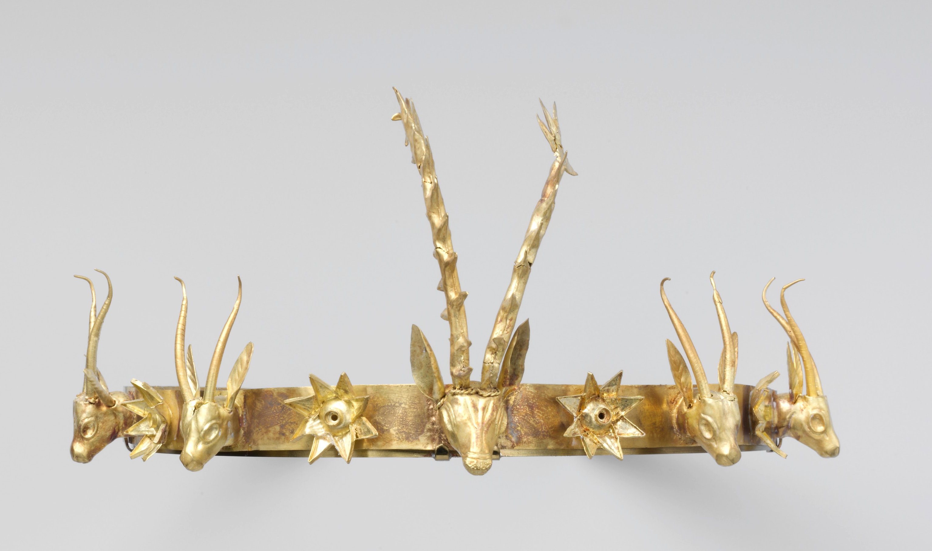 Headband with Heads of Gazelles and a Stag Between Stars or Flowers ca. 1648–1540 BCE